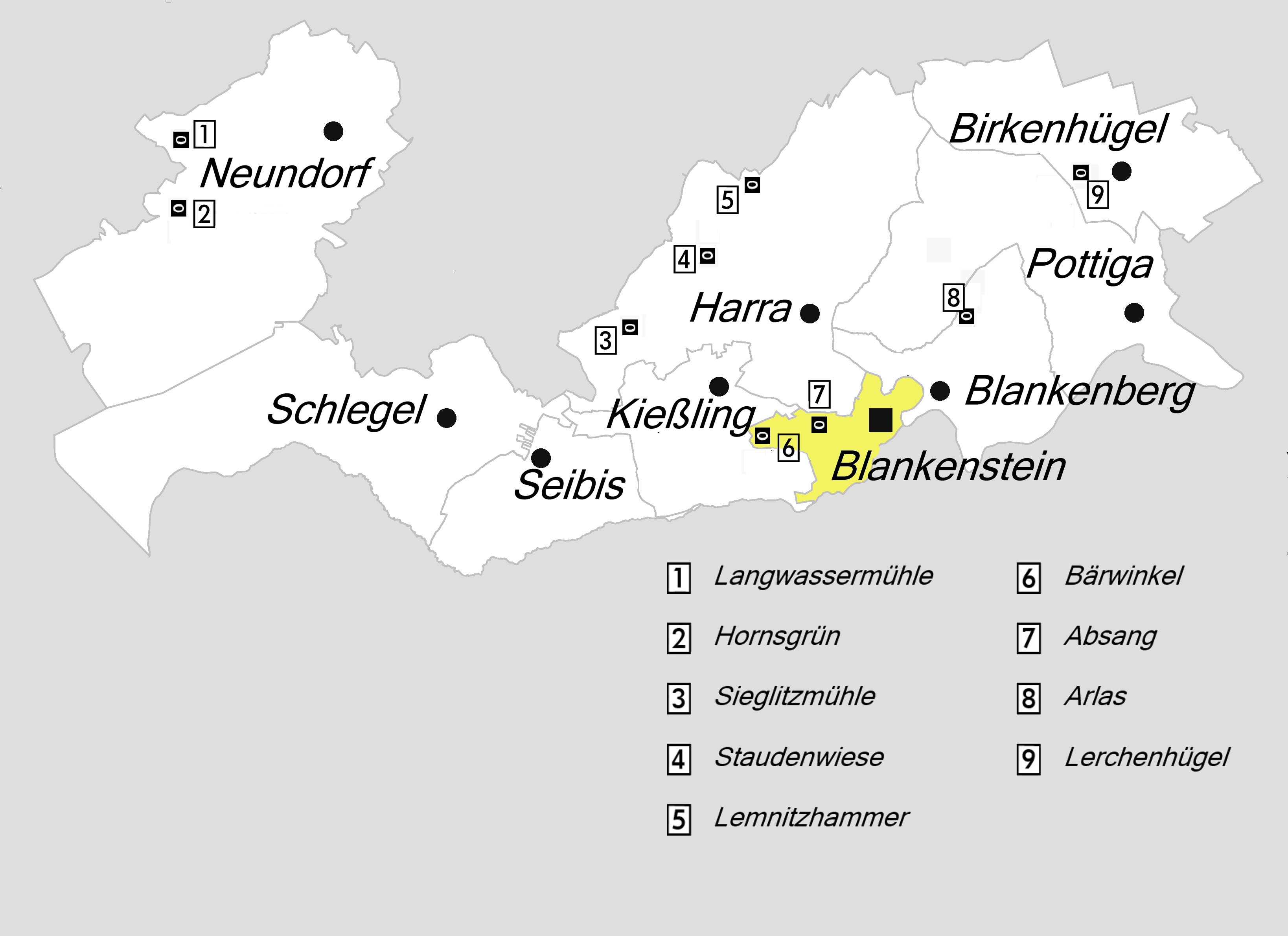 District-Maps of Rosenthal am Rennsteig